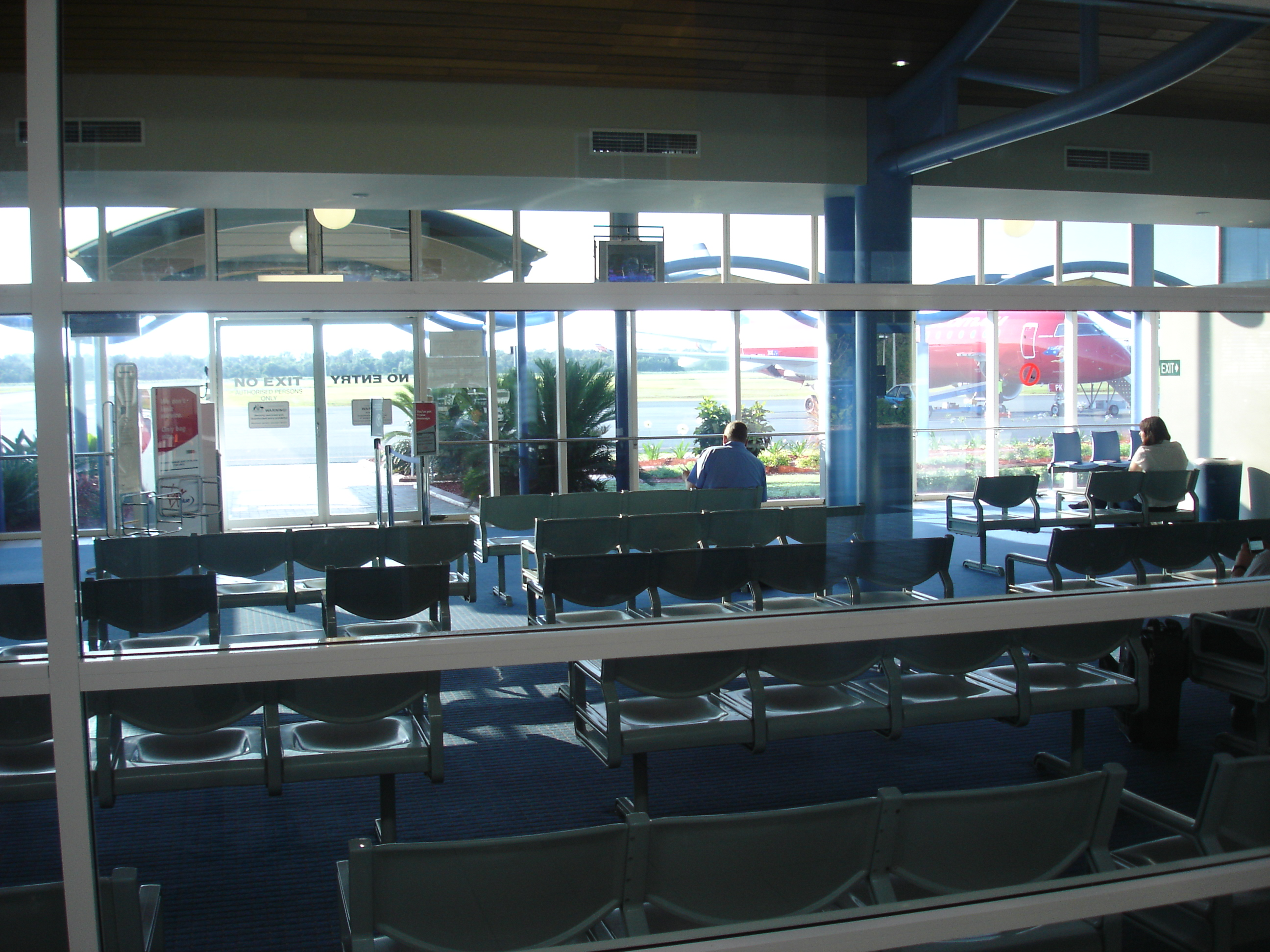 View of departures lounge, in the middle of the terminal, with a Virgin Blue E190, having just arrived from Sydney and preparing for its return, on the tarmac in the background